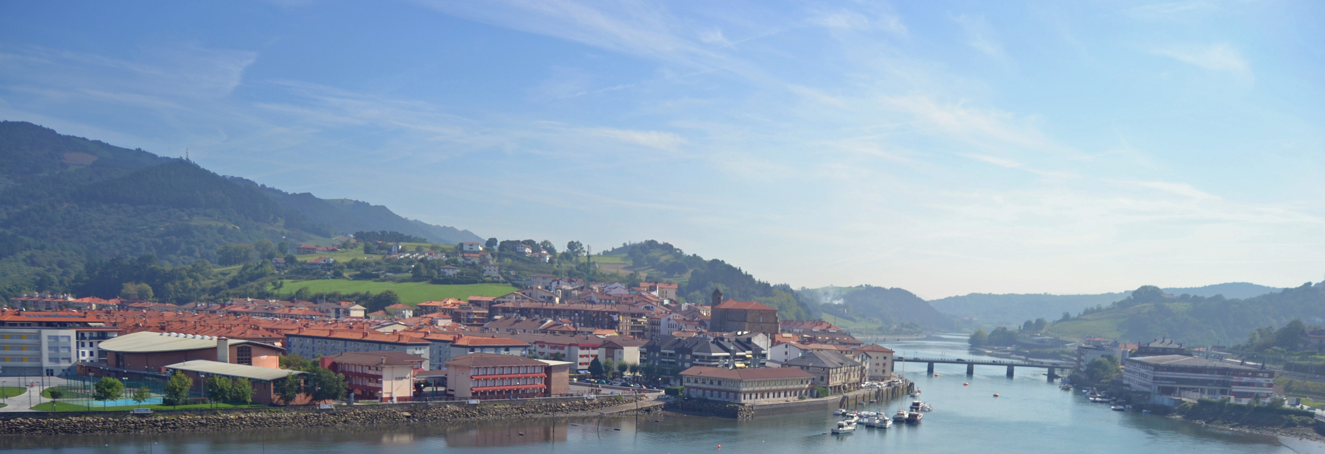 Panoramic view of Orio. Gipuzkoa, Basque Country.